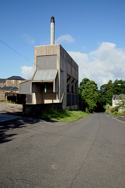 Former Dingleton Hospital boiler house. This 1977 building by Chiefswood Road, designed by Peter Womersley, was commended for its concrete work and received the F.T. Industrial Architecture Award in 1978. It replaced the steam boiler plant installed in 1901 at the former psychiatric hospital at Dingleton (1872). The hospital, on a 25.6 hectare (63.2 acre) site, was sold by NHS Borders to a private developer in 2001. The boiler house including boundary walls is a grade B listed building (of regional or more than local importance) and will remain in situ for the foreseeable future.